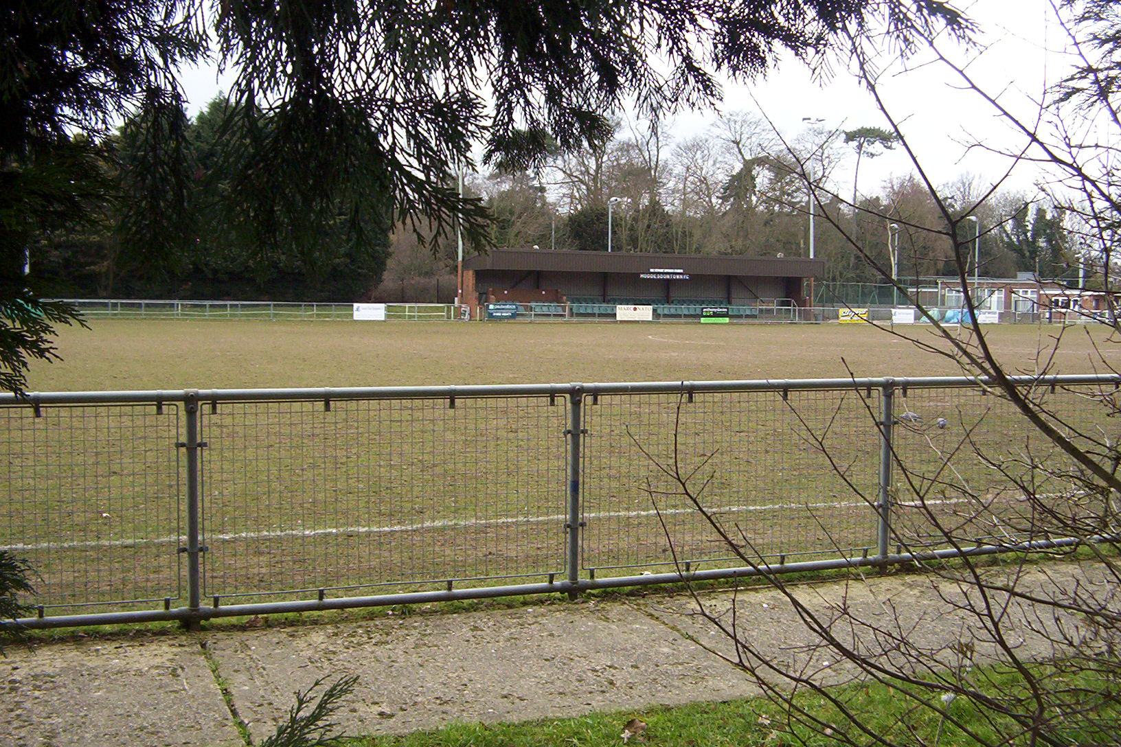 The home stadium of Hoddesdon Town F.C. I took this picture earlier this week.